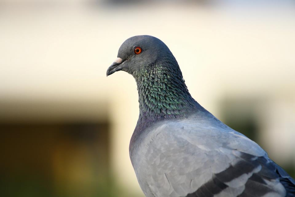 Indian Pigeon